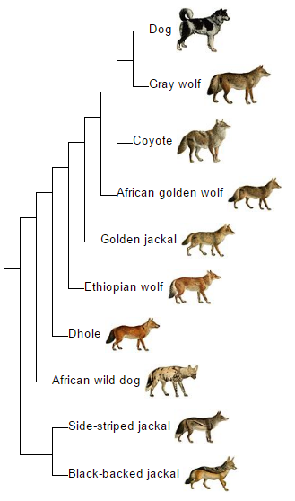 Phylogeny of wolf-like canids